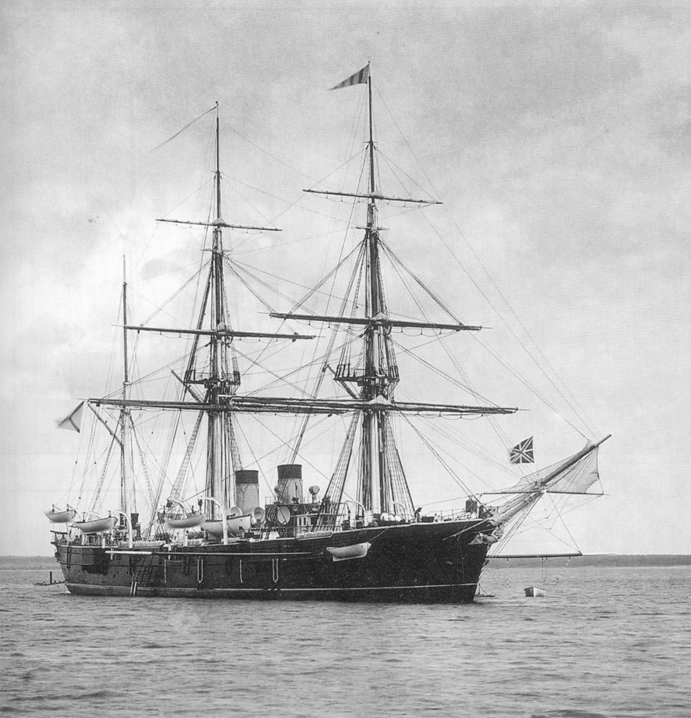 Imperial Russian cruiser Rynda (since 8 Mai 1917 - Osvoboditel').